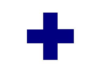 VI Corps, Army of the Potomac, 3rd Division Badge